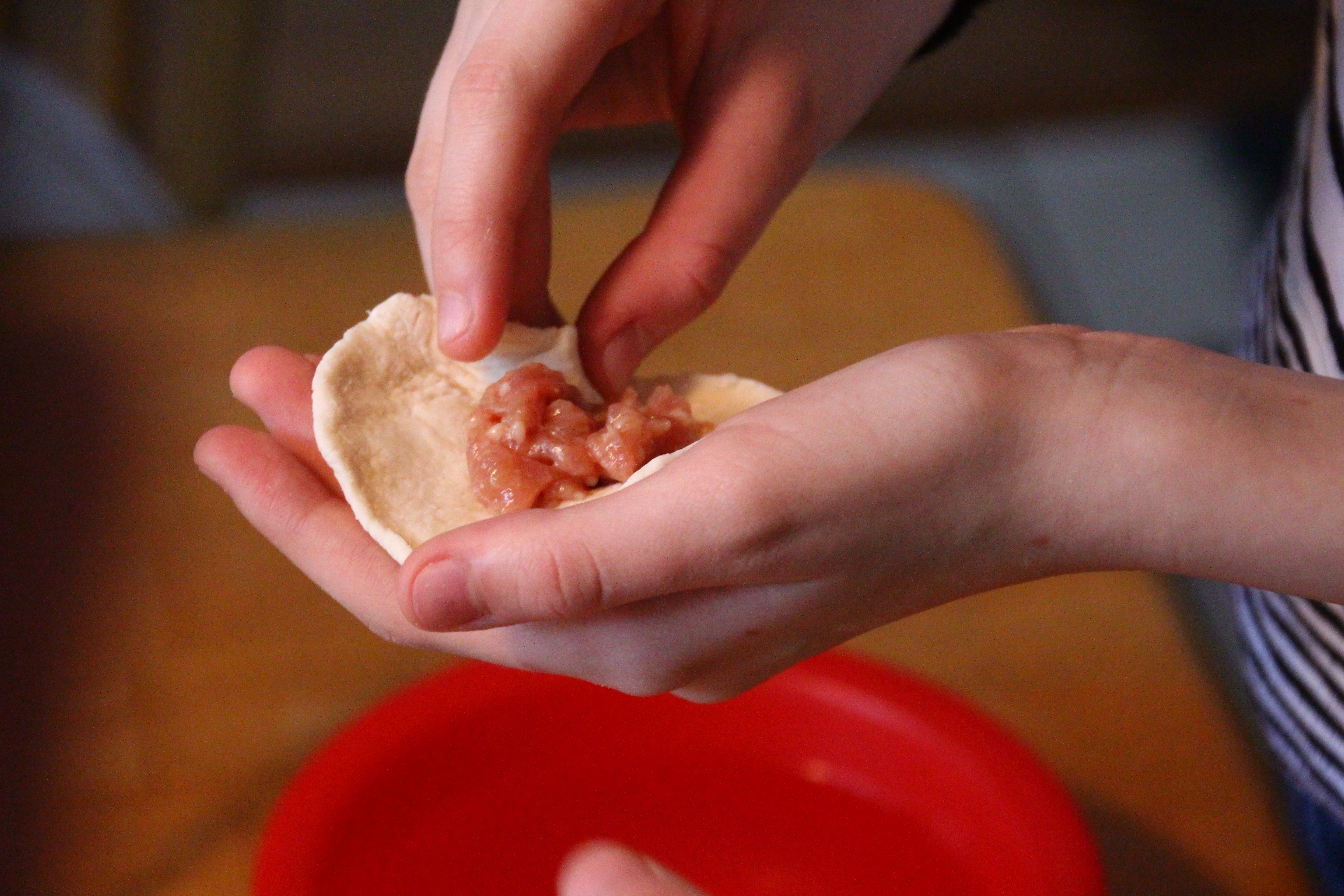 Chinese steamed dumplings (bāozi) being prepared for cooking.